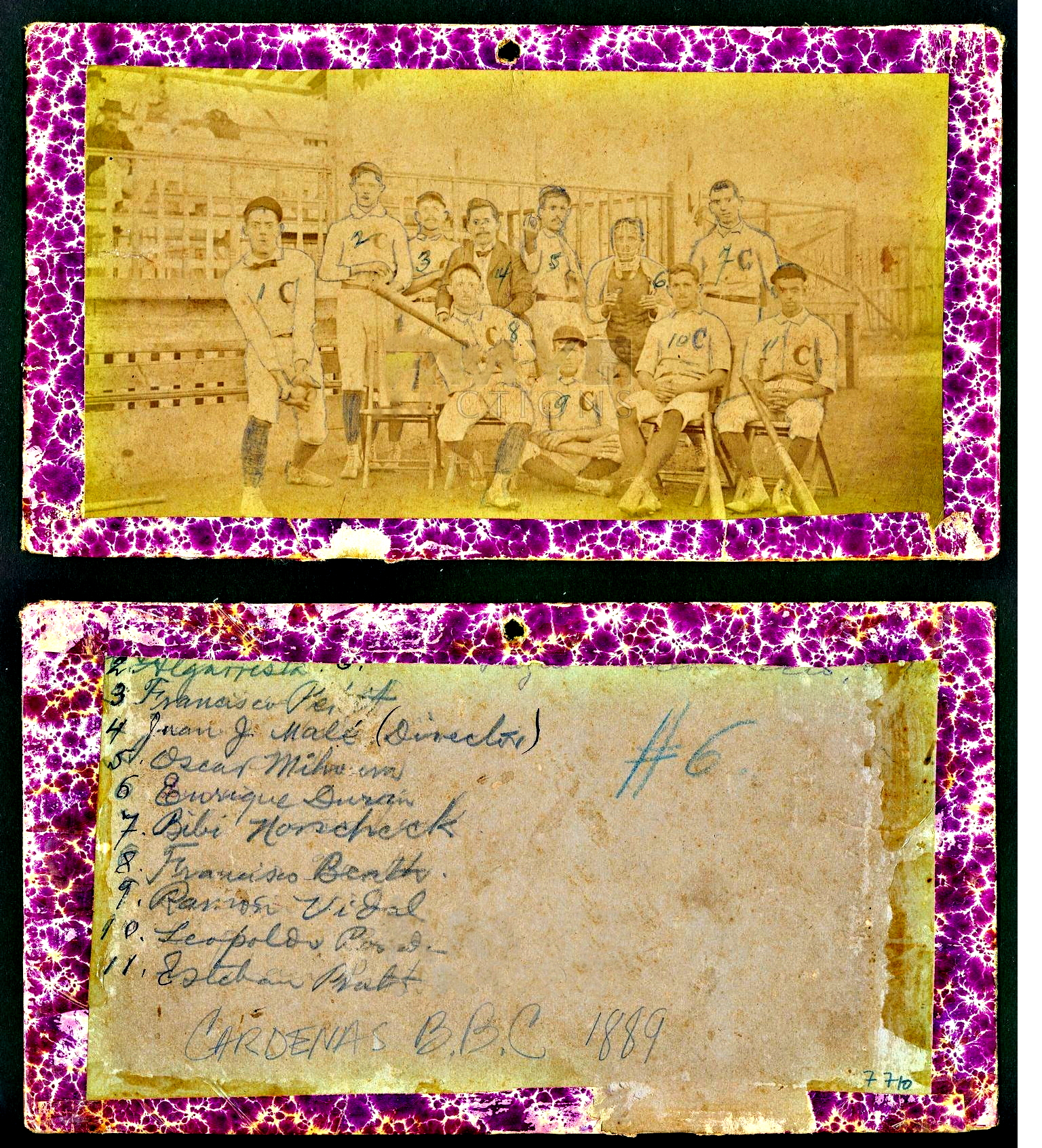 1889 Cardenas Team, "The Birth of Latin American Baseball" Pioneer Cuban Professional Cabinet Photo. Showing twelve men in uniform with each identified on the back as well. One player (number 1 on the far left) is identified on the back but covered up by the paper while the other 11 are as follows in order: Eduardo Elgarrest, Francisco Pettit, Juan J. Male, Oscar Mihoura, Enrique Duran, Benj. Horscheck, Francisco Beath, Ramon Vidal, Leopoldo Posada, Esteban Prats.